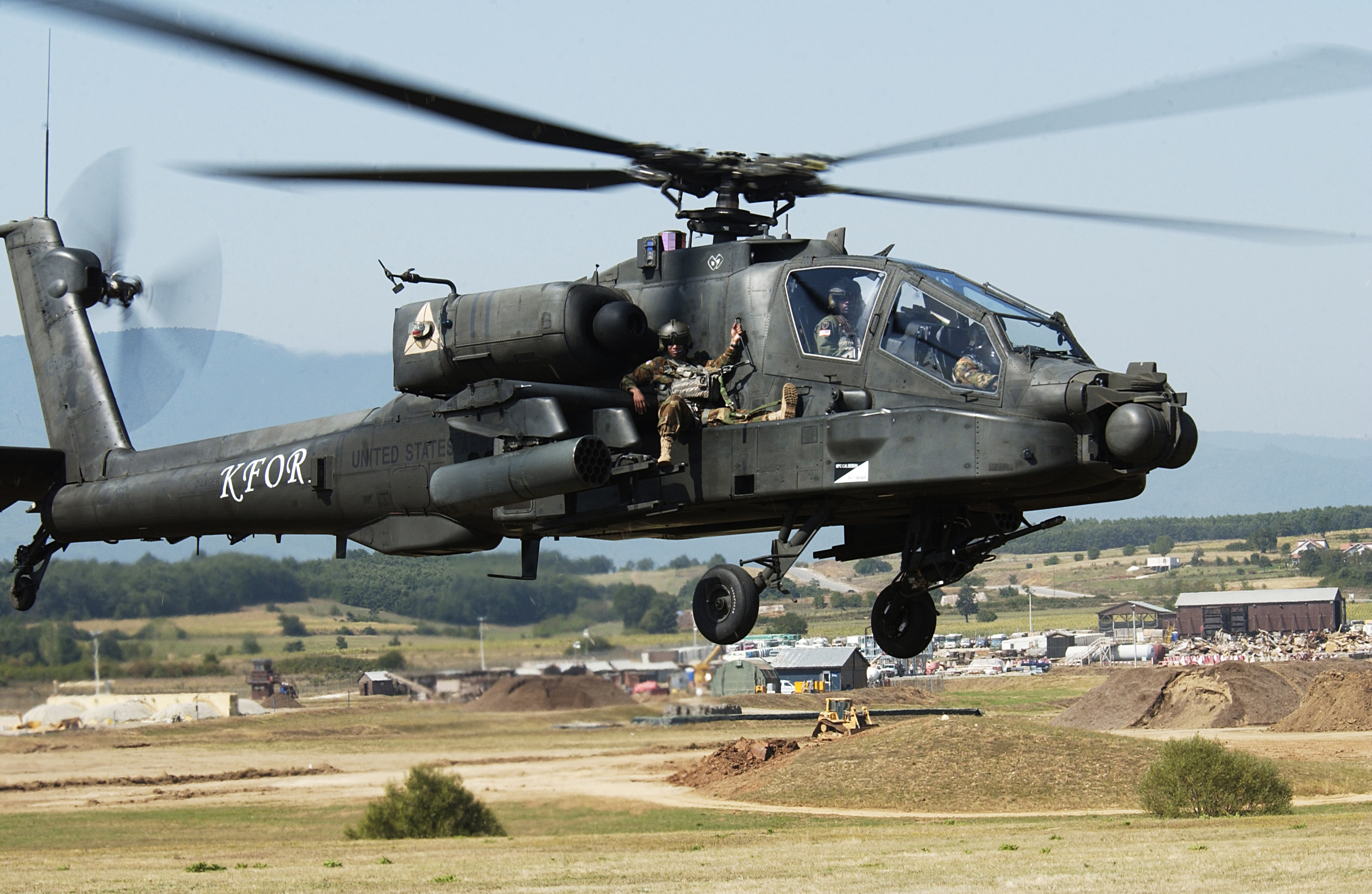 Capt. Sean Spence, the commander of B Co. TF Eagle, rides shotgun on an AH-64 Apache during an Apache extraction exercise Aug. 25 at Camp Bondsteel, Kosovo.